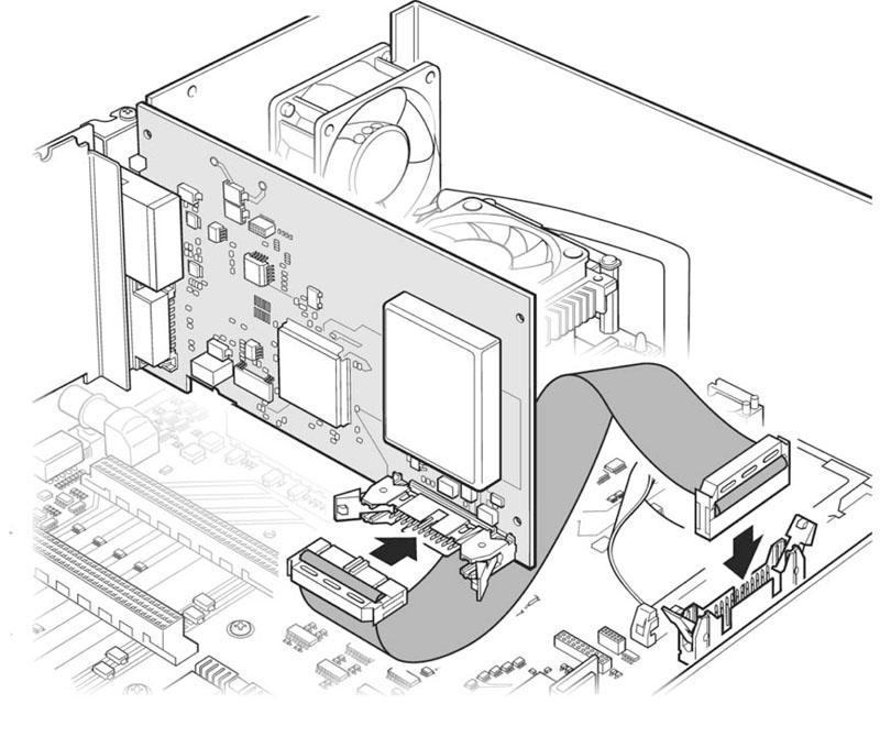 Computer Technical Illustration of a PC Interface Card, created by Gerald Geake in 2006.